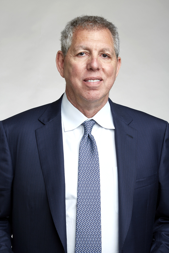 Jeffrey Friedman is a molecular geneticist at Rockefeller University and an Investigator of the Howard Hughes Medical Institute Attribution: The Royal Society